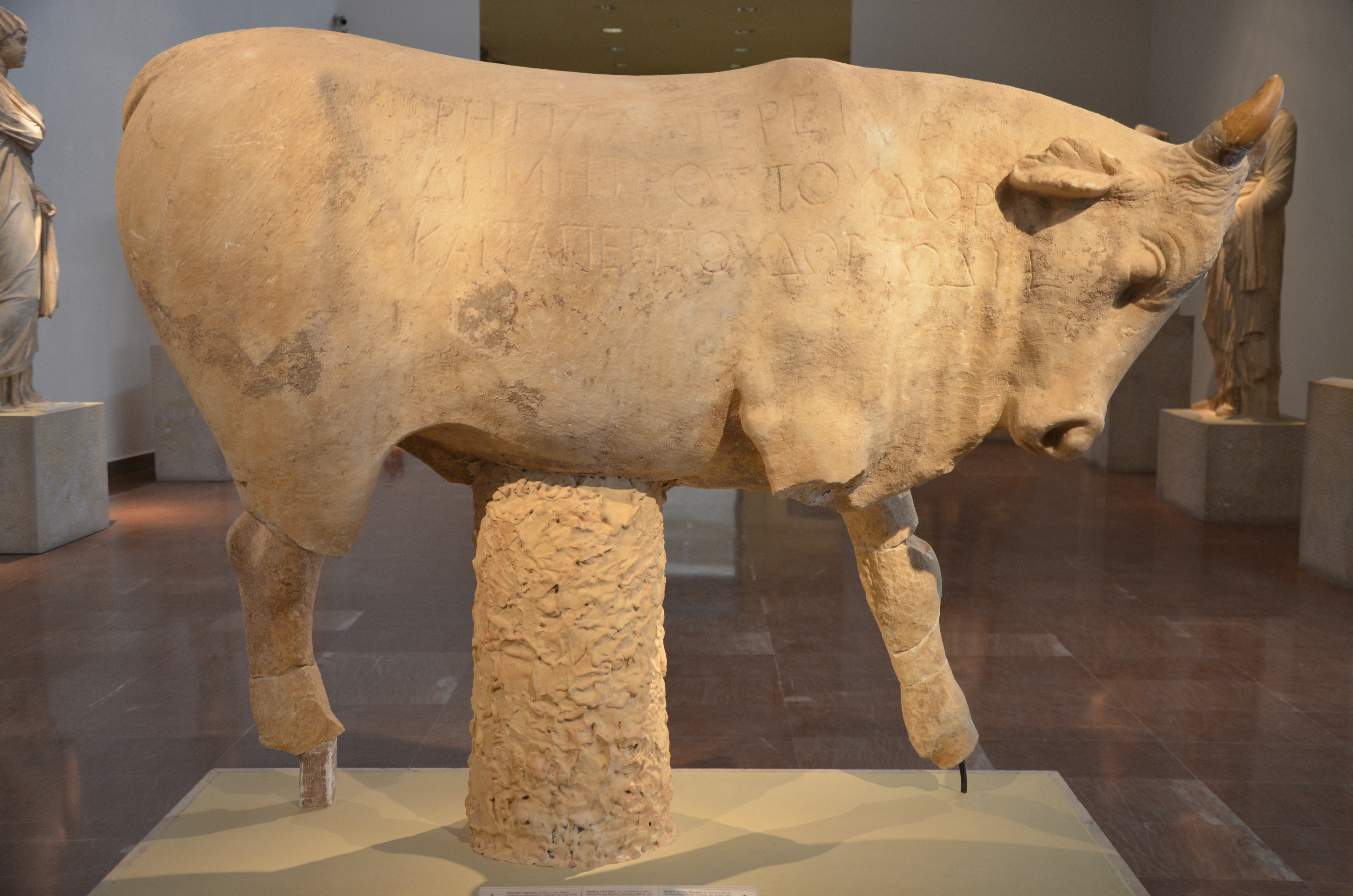 Regilla, priestess of Demeter offers the water and apprentices to Zeus.